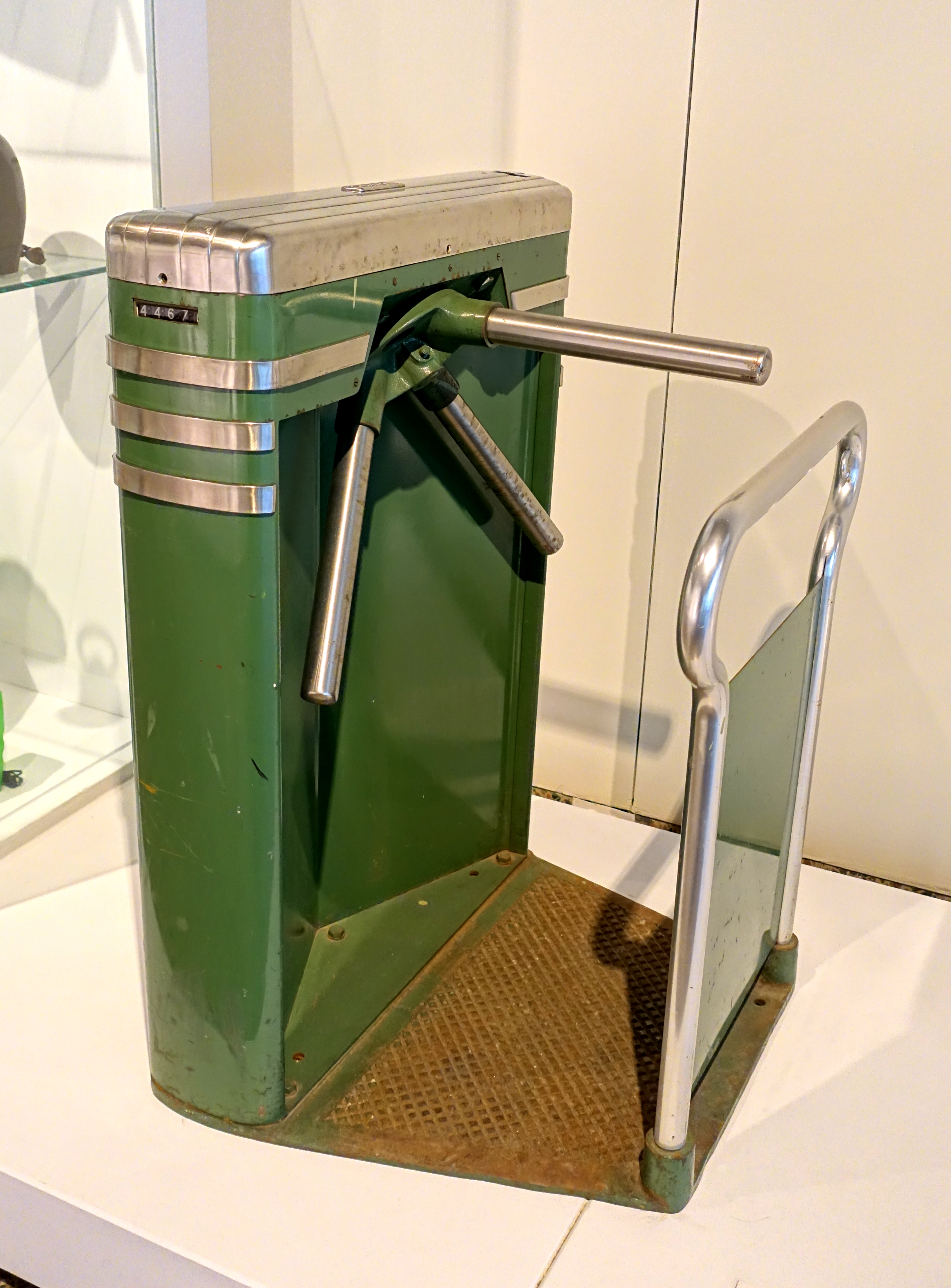 Exhibit in the Montreal Museum of Fine Arts - Montreal, Quebec, Canada. The design of this object is not eligible for trademark protection. Rather it might have been eligible for Industrial Design protection, but if so, that protection has expired; see Industrial design right for more information. Hence if the design was ever protected, its design protection has now expired.